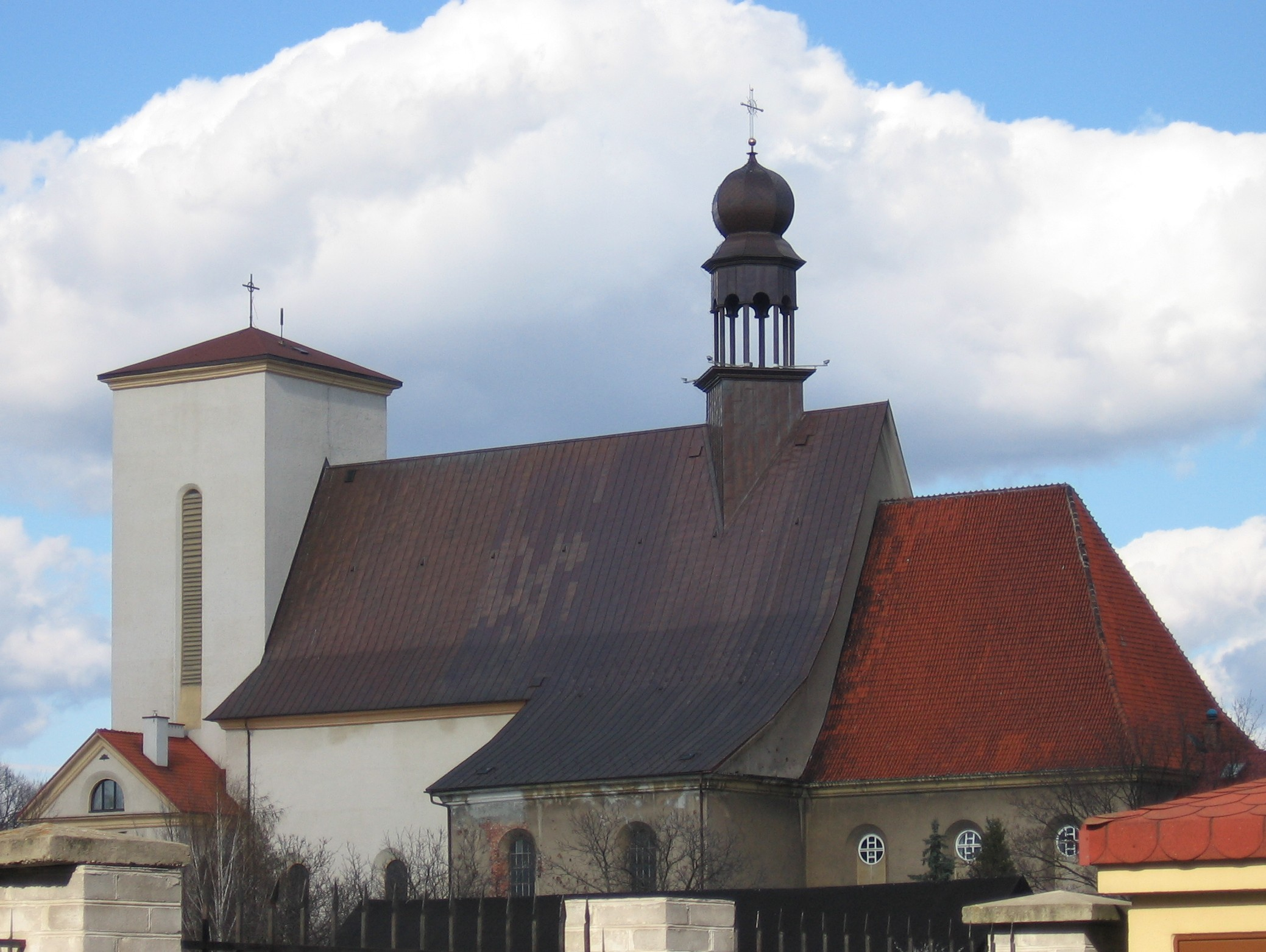 Church, Marysin Wawerski, Warsaw, Poland